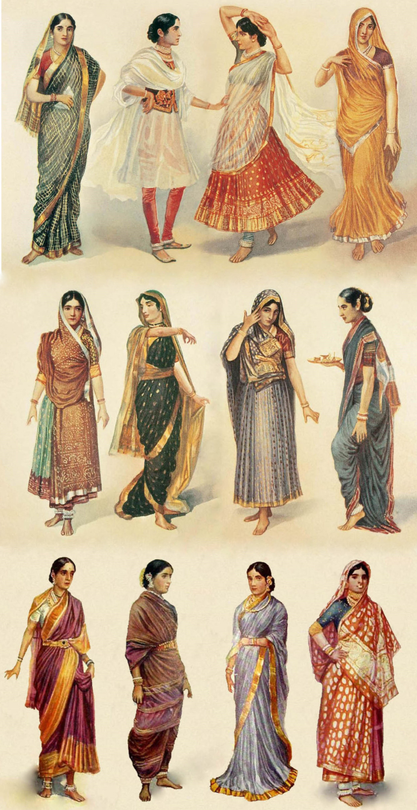 Watercolor Illustrations of different styles of Sari & clothing worn by women in South Asia.